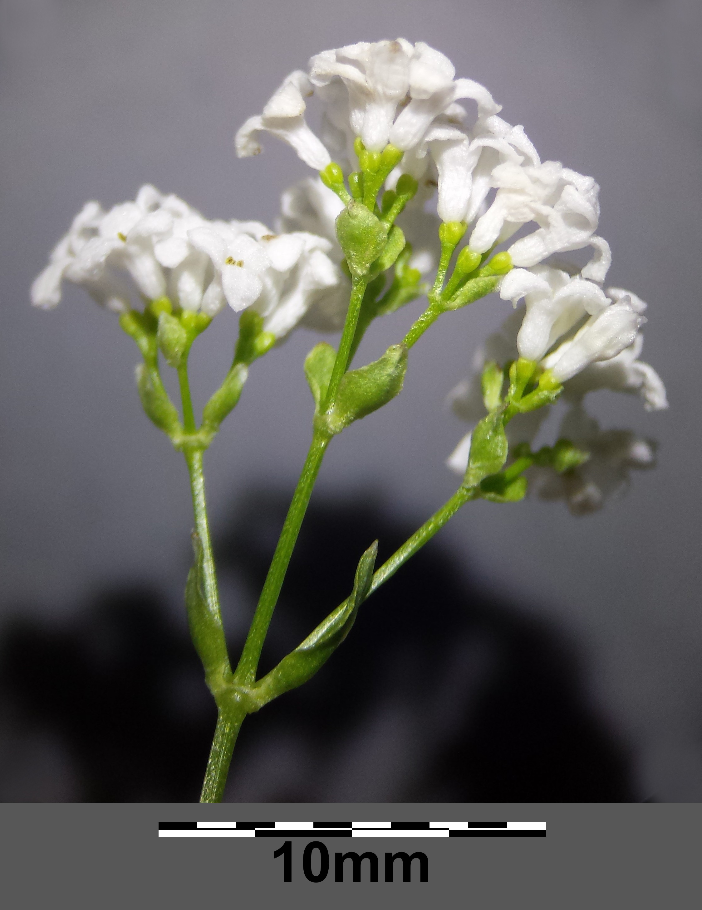 Inflorescence Taxonym: Asperula tinctoria ss Fischer et al. EfÖLS 2008 ISBN 978-3-85474-187-9 Location: Steinberg near Niederhollabrunn, district Korneuburg, Lower Austria - ca. 375 m a.s.l. Habitat: semi-dry grassland